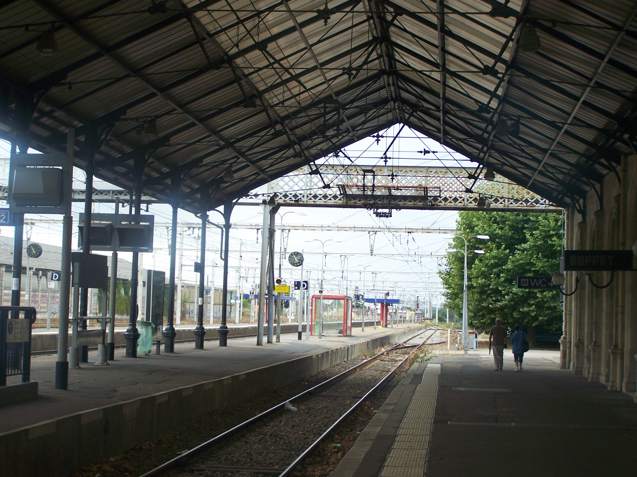 Platforms, tracks and canopy of Libourne’s station in Gironde, France.